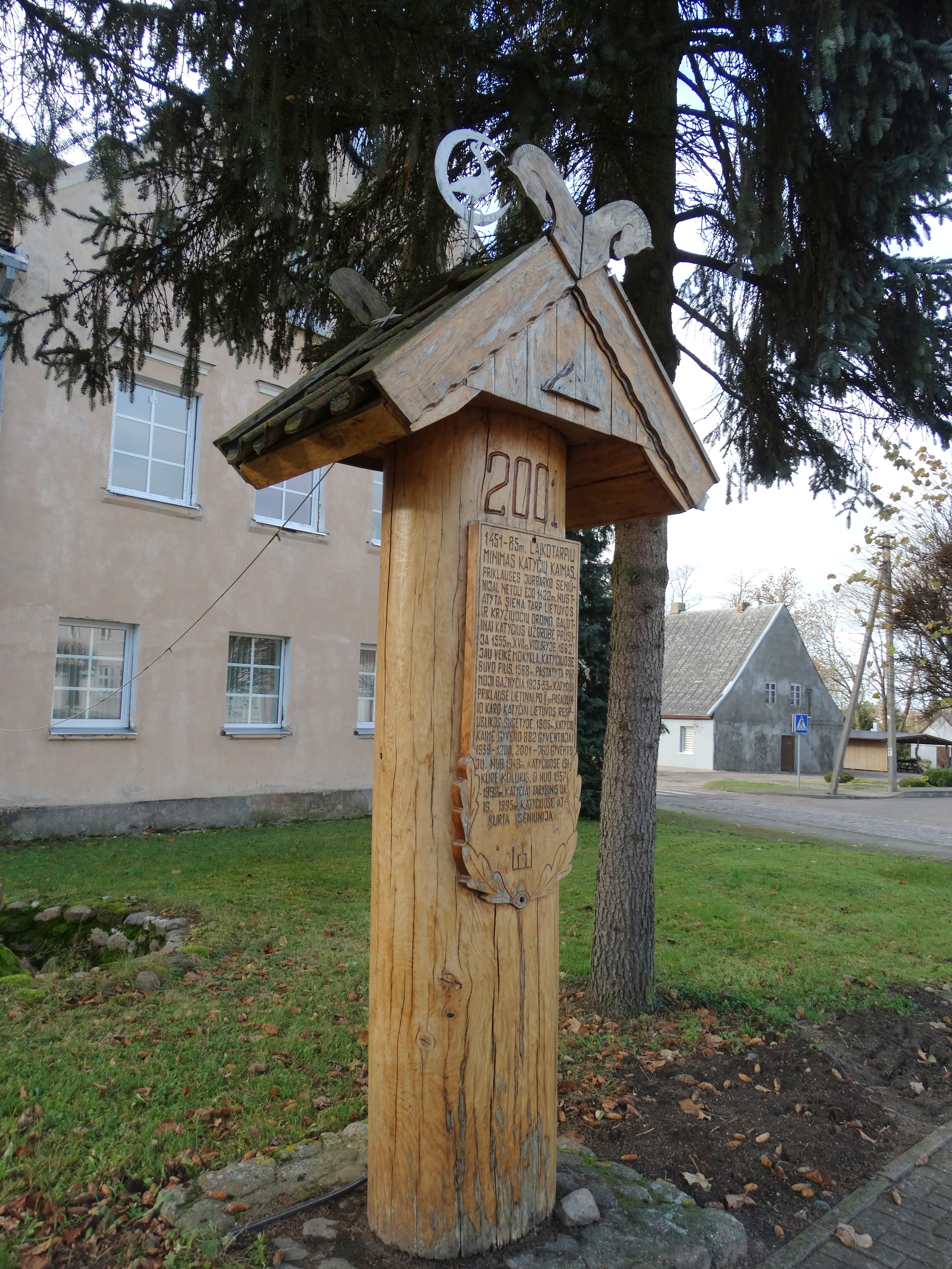 Wood carved history of Katyčiai, Šilutė district, Lithuania